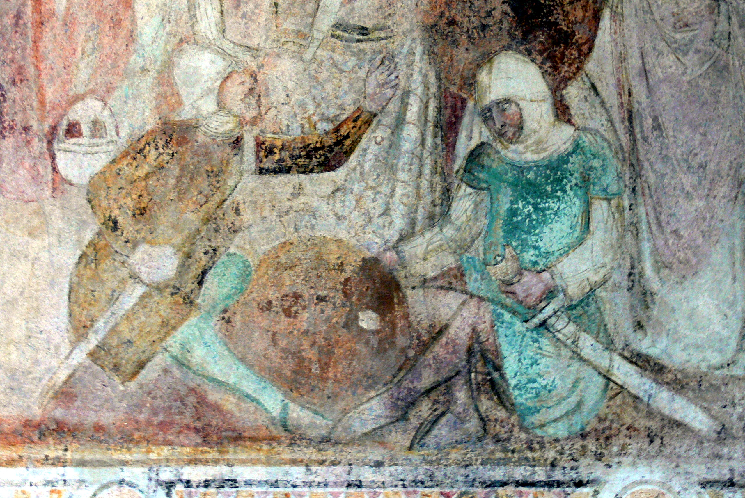 Tramin ( South Tyrol, Italy ). Saint James church in Kastelaz: Gothic frescos ( 14th century ) - Passion of Christ ( detail ): Soldiers gambling about the clothes of Christ.